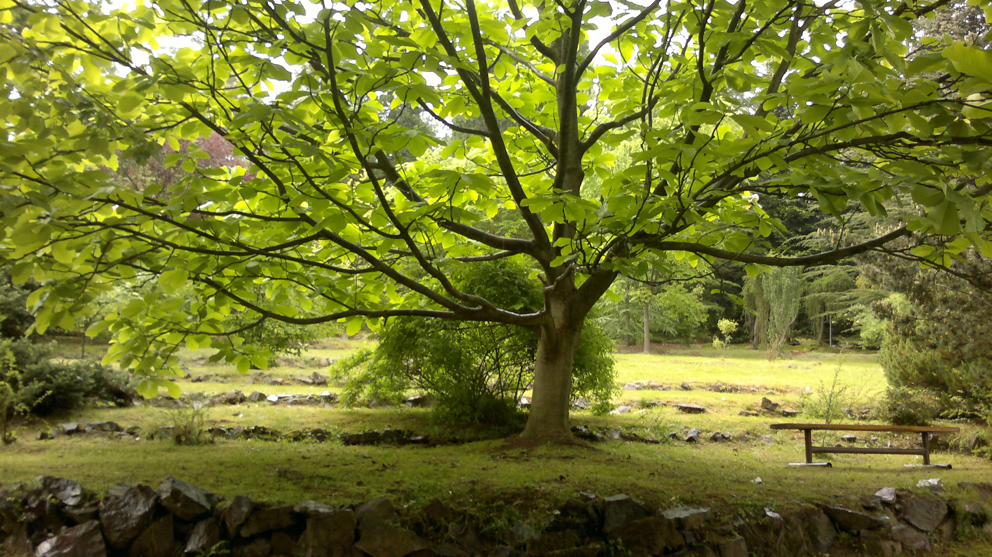 Arboretum of the Forestery faculty, the Czech University of Agriculture